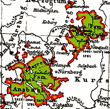 Map of the principalities of Ansbach and Bayreuth from the Putzgers Historischer Schul-Atlas (Putzger History School Atlas)